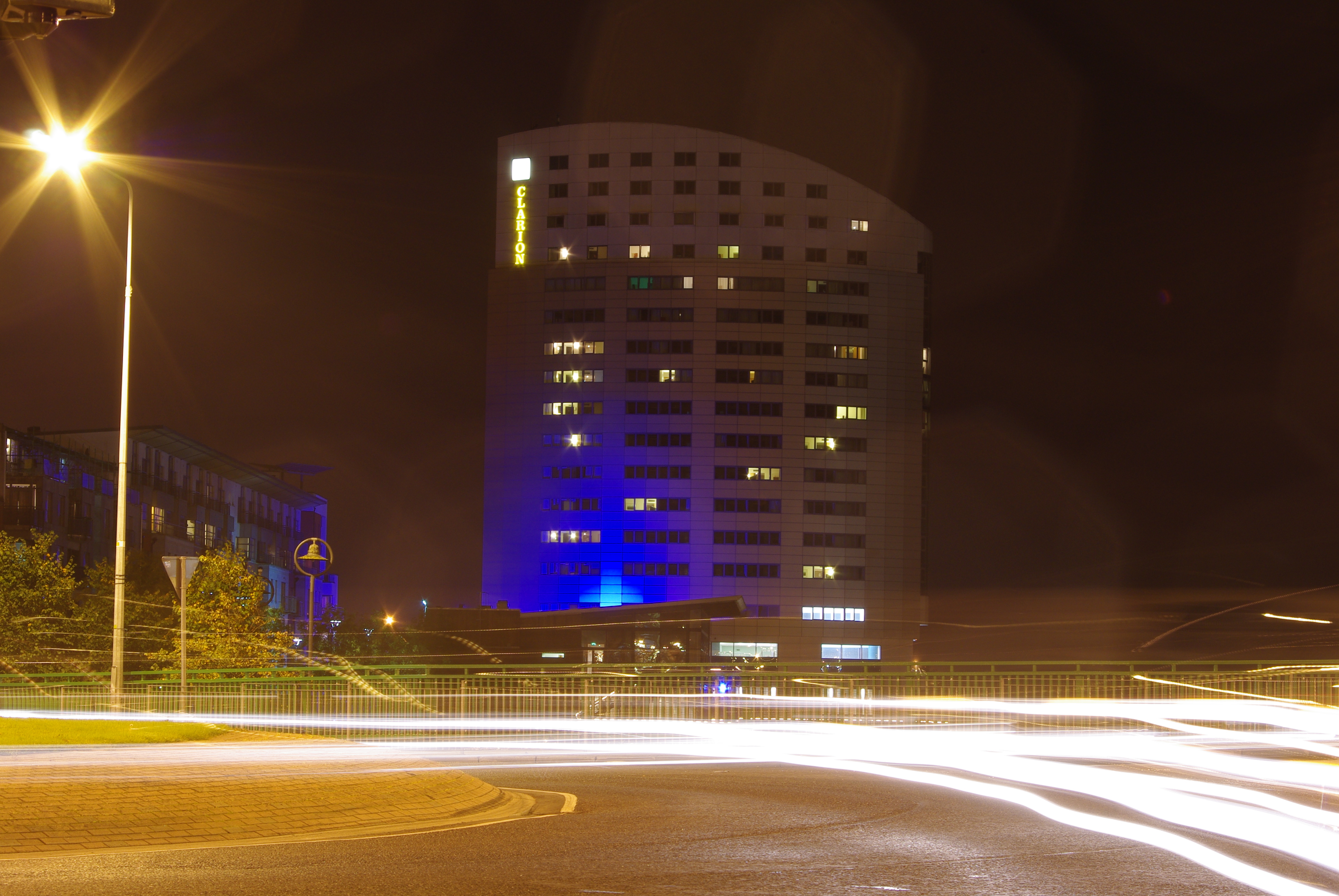 Clarion Hotel Limerick Ireland Long Exposure Night Shot